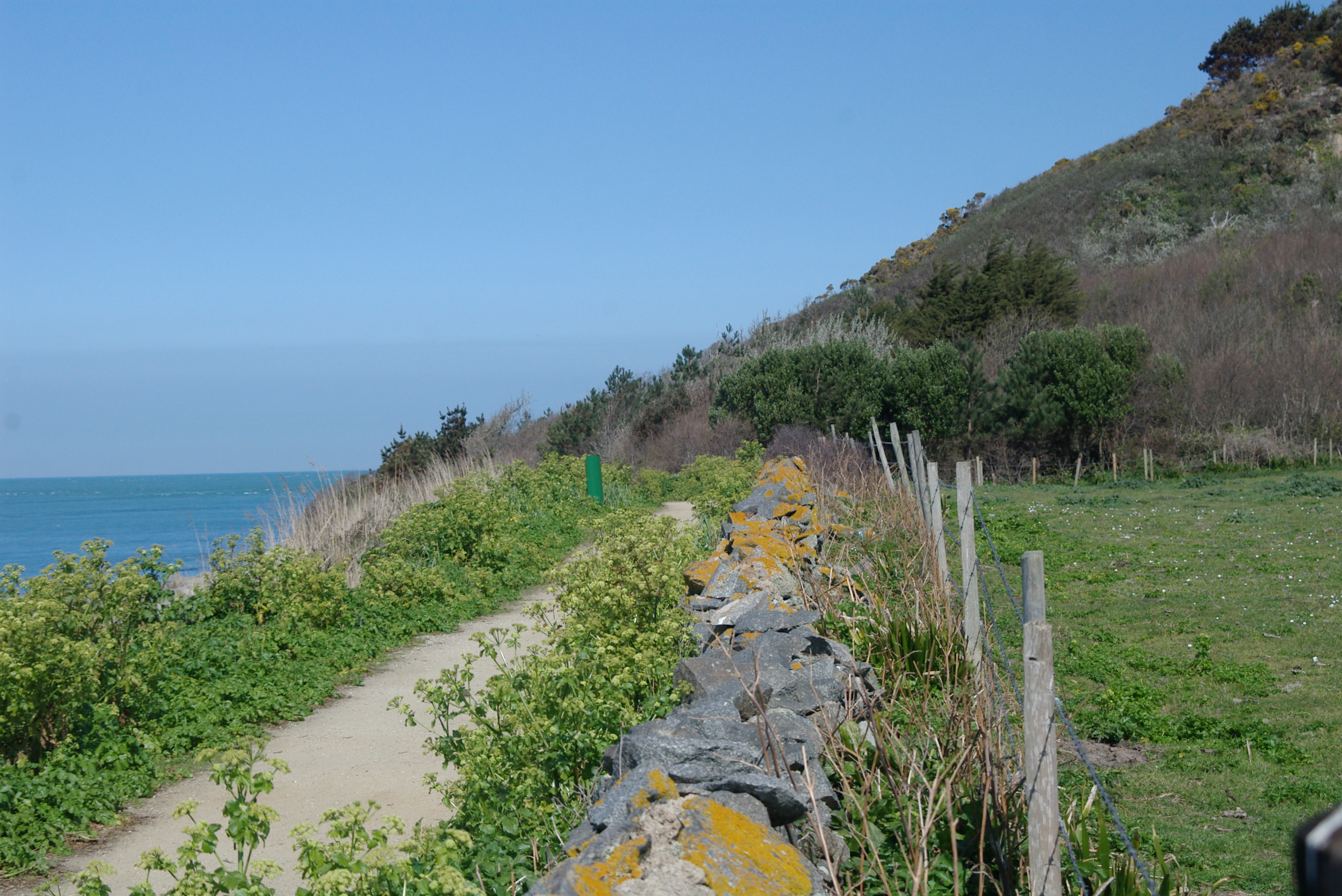 Western Coast Footpath, Herm Island